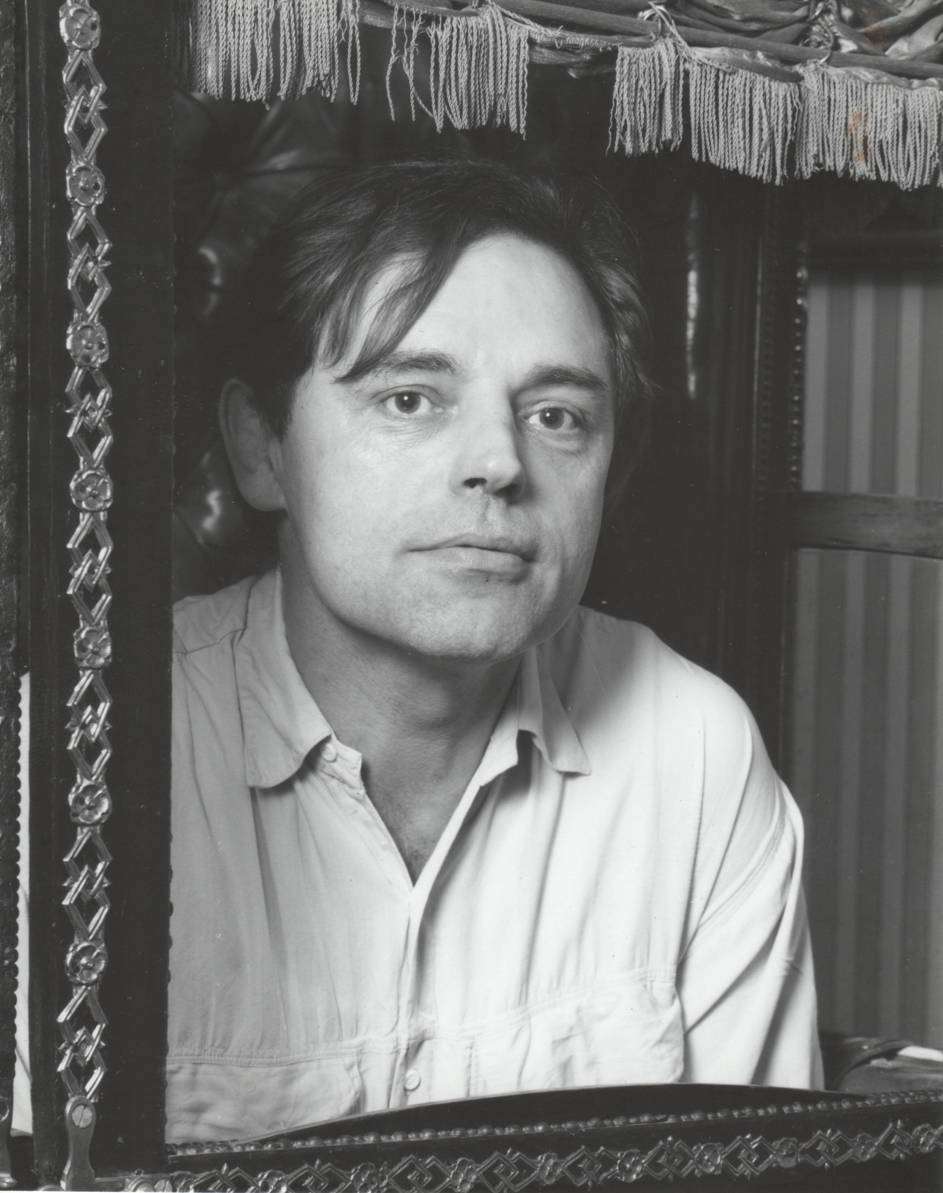 A portrait of Edwin Shirley.